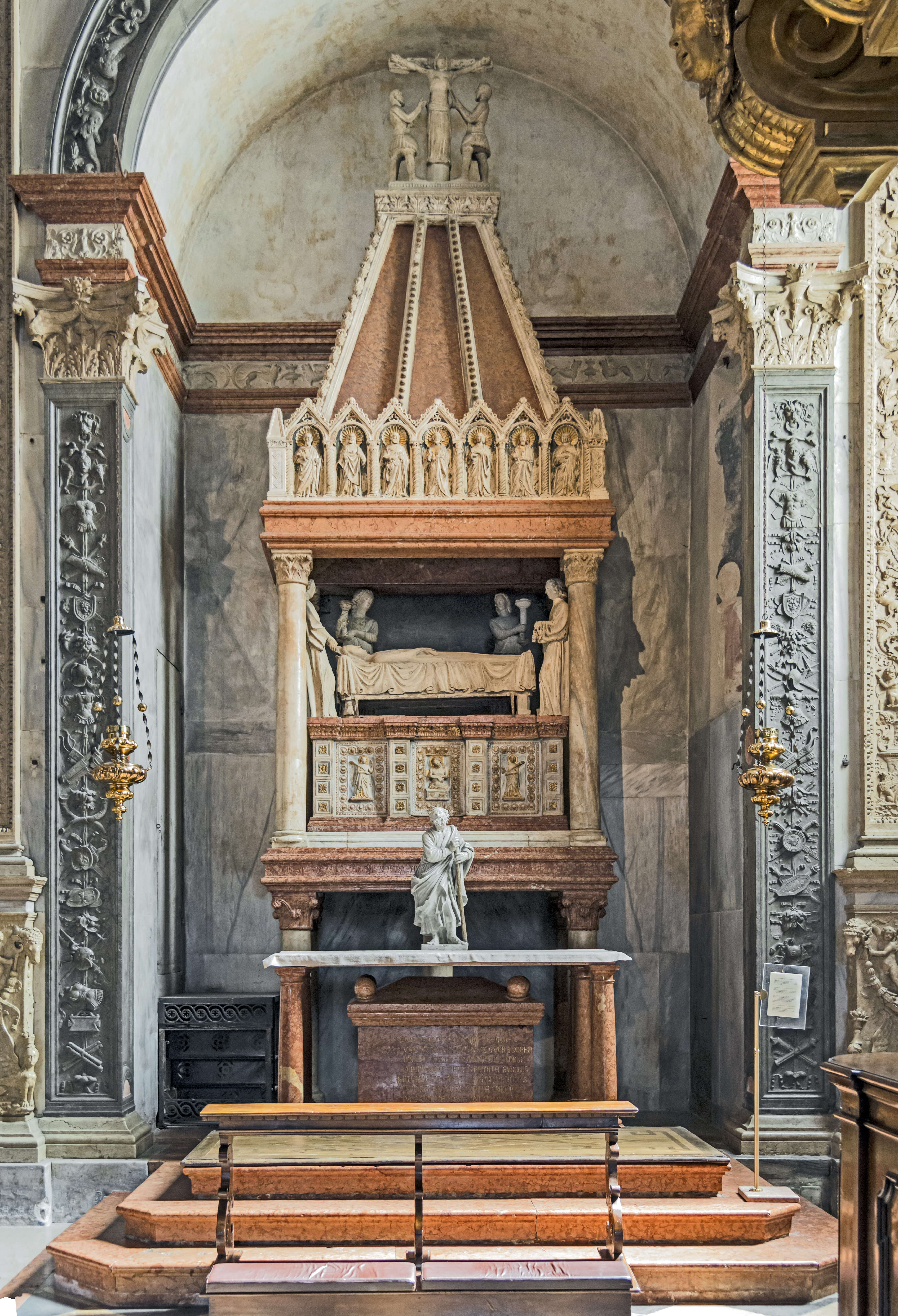 Cathedrale Santa Maria Matricolare. Mazzanti chapel dedicated to St. Agatha and St. Francesco. It was renovated in 1508 by the canon Francesco Mazzanti. The sculpture work surrounding the monument is of Domenico da Lugo. The Arca di Sant'Agata is a monument of campionese school built in 1353. It contains the recumbent statue of St. Agatha, and at the top of the monument the martyr of St. Agatha , with torturers that make her breasts. At Arca under the urn containing the body of St. Mary of Consolation (sister of St. Hanno bishop). On the altar, a sculpture of St. James.